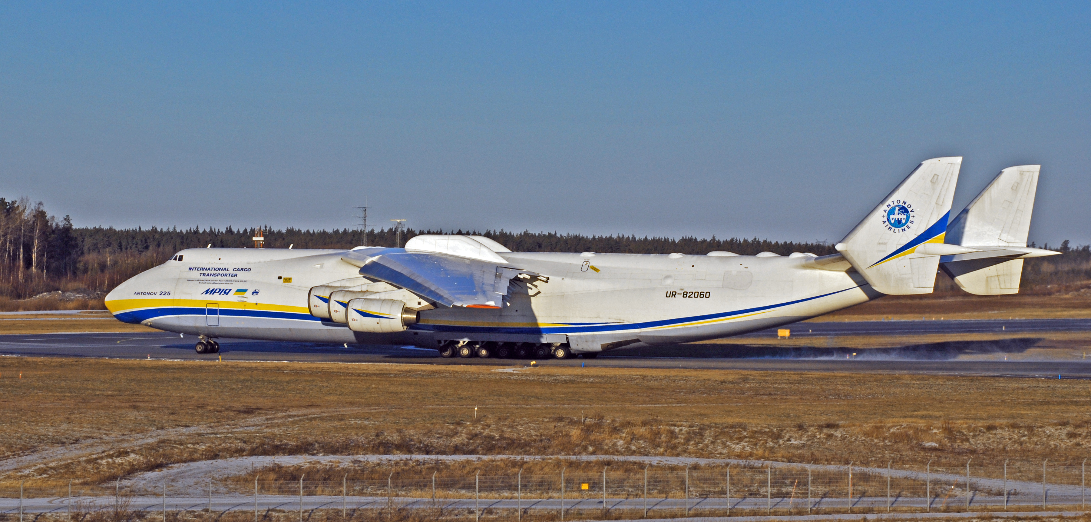 Antonov An-225 at Arlanda airport, Stockholm